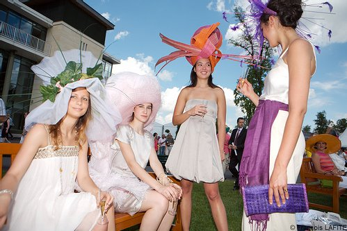 Hats by Hélène de Saint Lager (